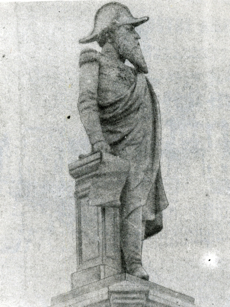 Statue of Guzmán Blanco known like El Manganzón